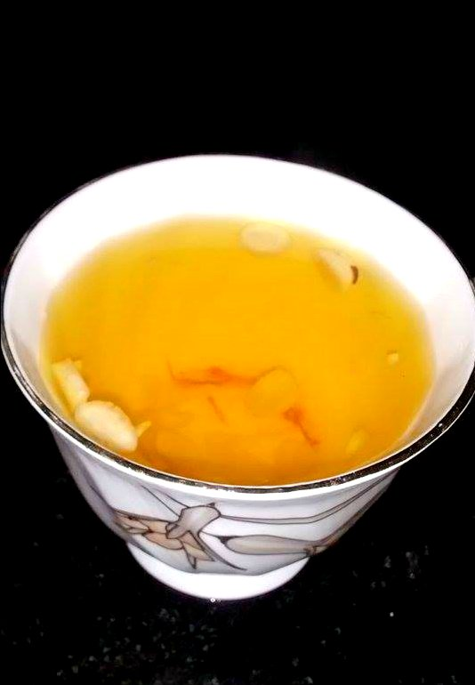 Kahwah is Kashmir's famous tea! It is made with saffron, cinnamon, green cardamom and sugar.